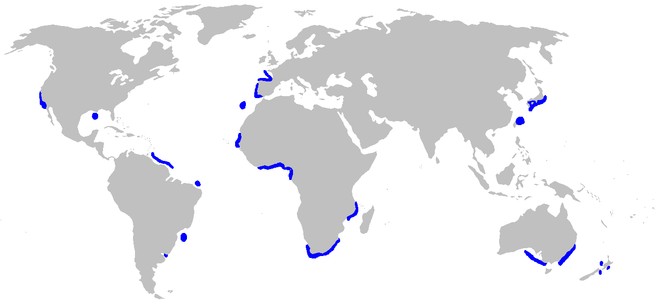 Distribution map for Mitsukurina owstoni, based on [1]